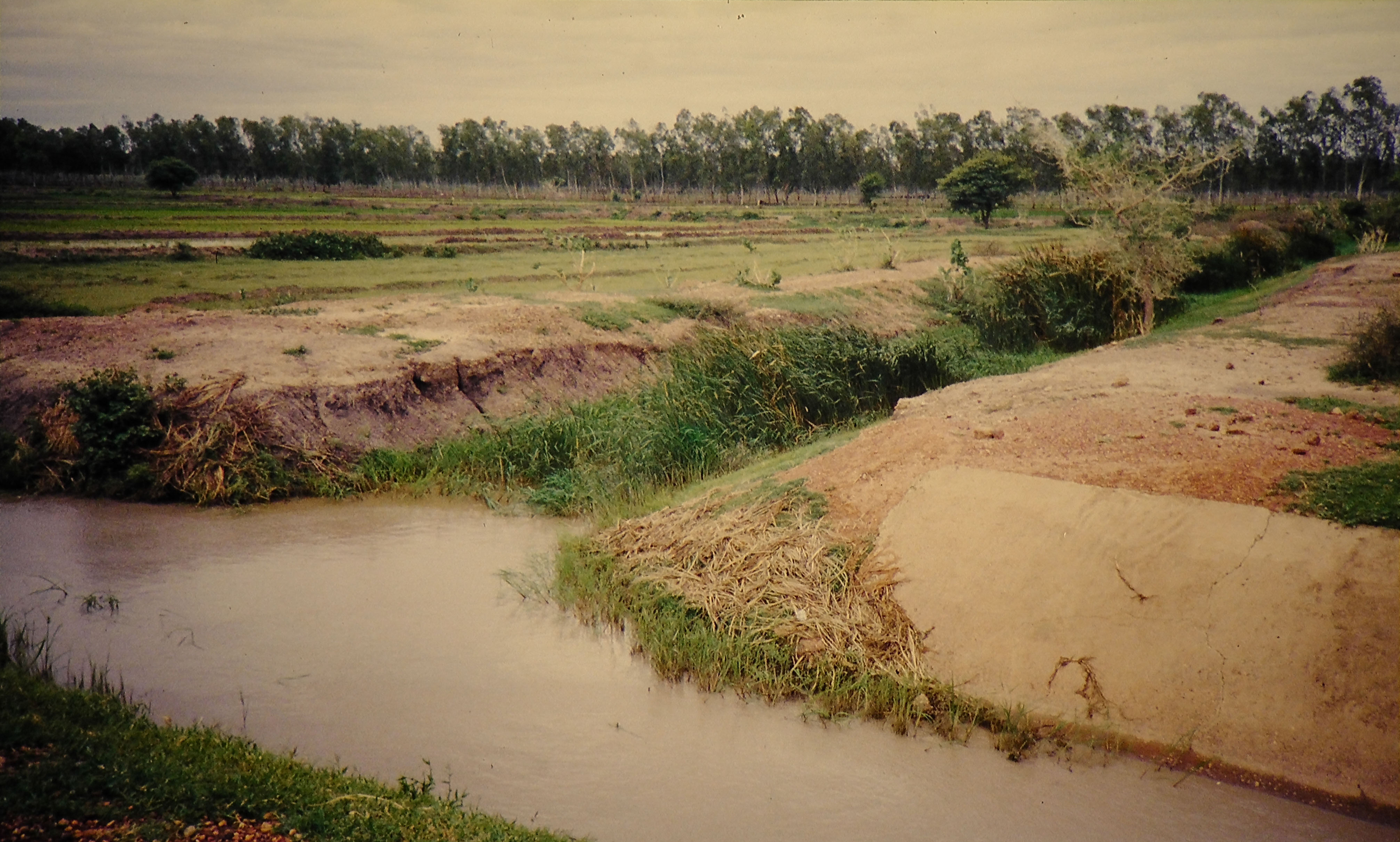 Drainage canal in a rice field in Seberi village, Kollo, Niger.